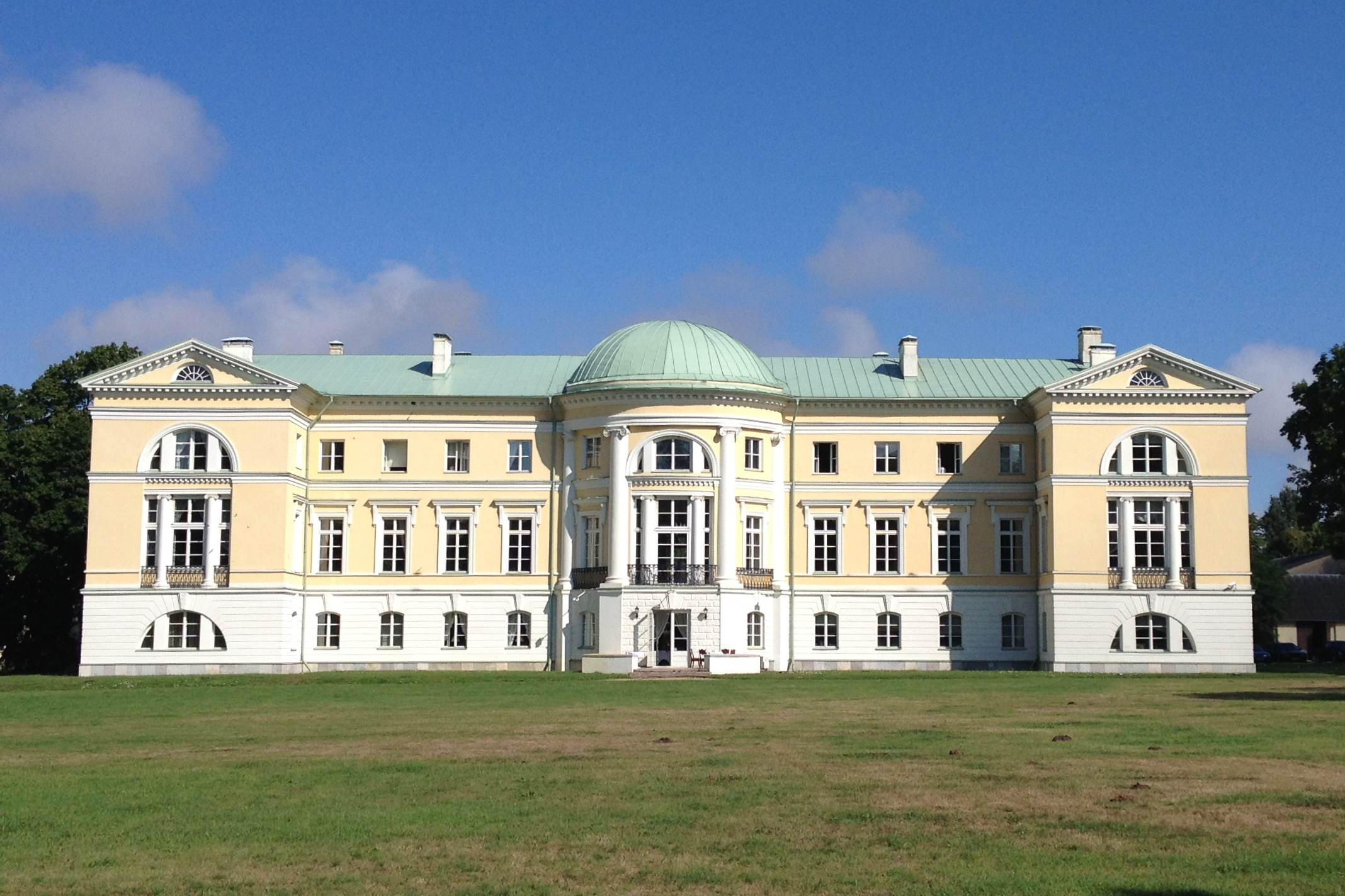 Mežotne Palace from the garden side.